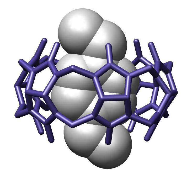 This is a picture generated from crystal structure data reported by Wade A. Freeman in Acta Crystallographica Section B: Structural Science, Year 1984, Pages 382-387. It shows a p-xylylenediammonium bound within a cucurbit[6]uril. It was made by myself and is free to be used by all.